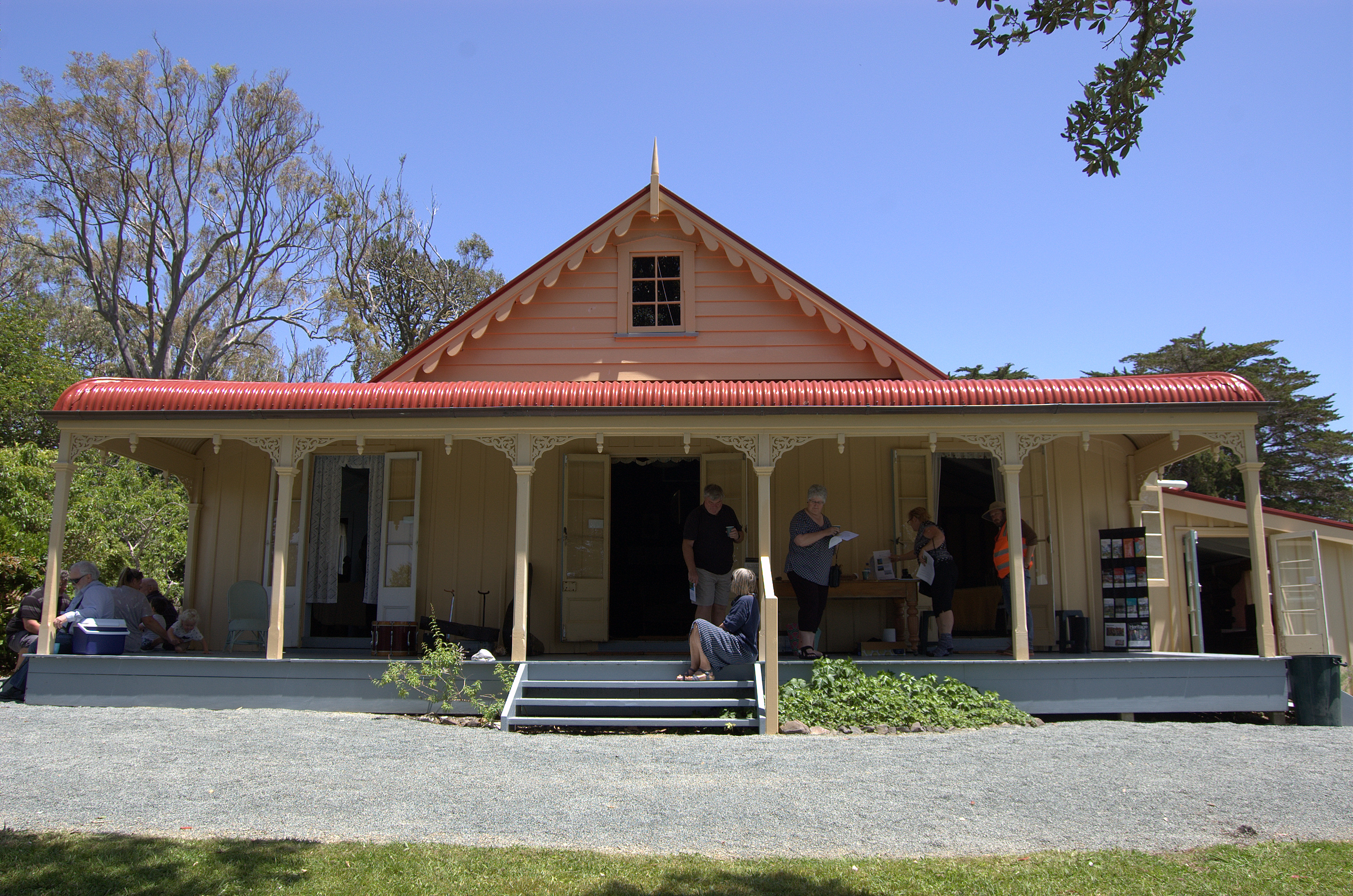 Ruatuna is a Category 1 listed Heritage property located at 441 Tinopai Road, Matakohe in the Kaipara District. It was constructed in 1877 by Samuel Cooksey for Edward and Eleanor Coates. It is best known as being the birthplace of New Zealand's 21st prime minister Gordon Coates.